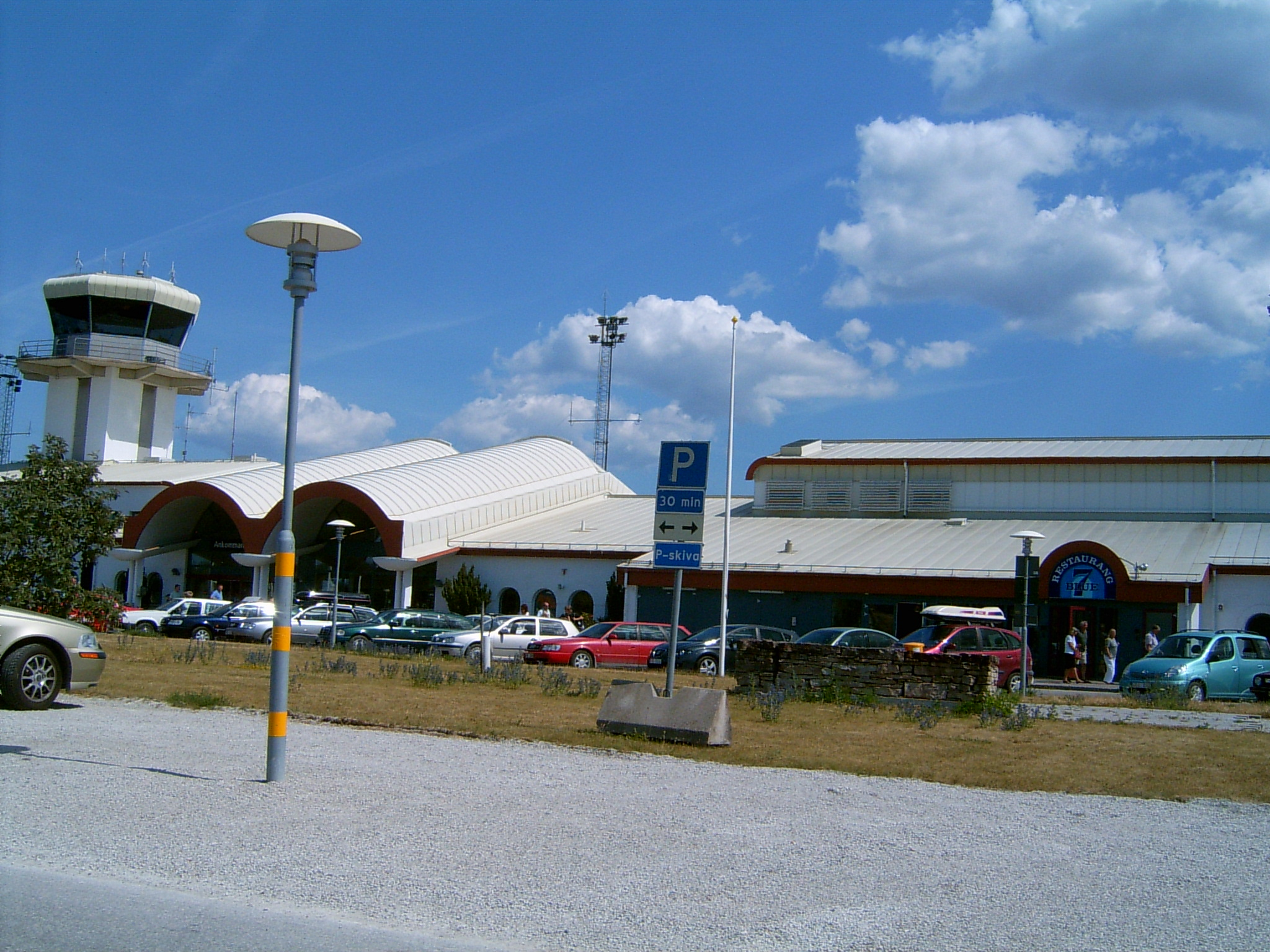 Visby airport in Visby, Sweden.